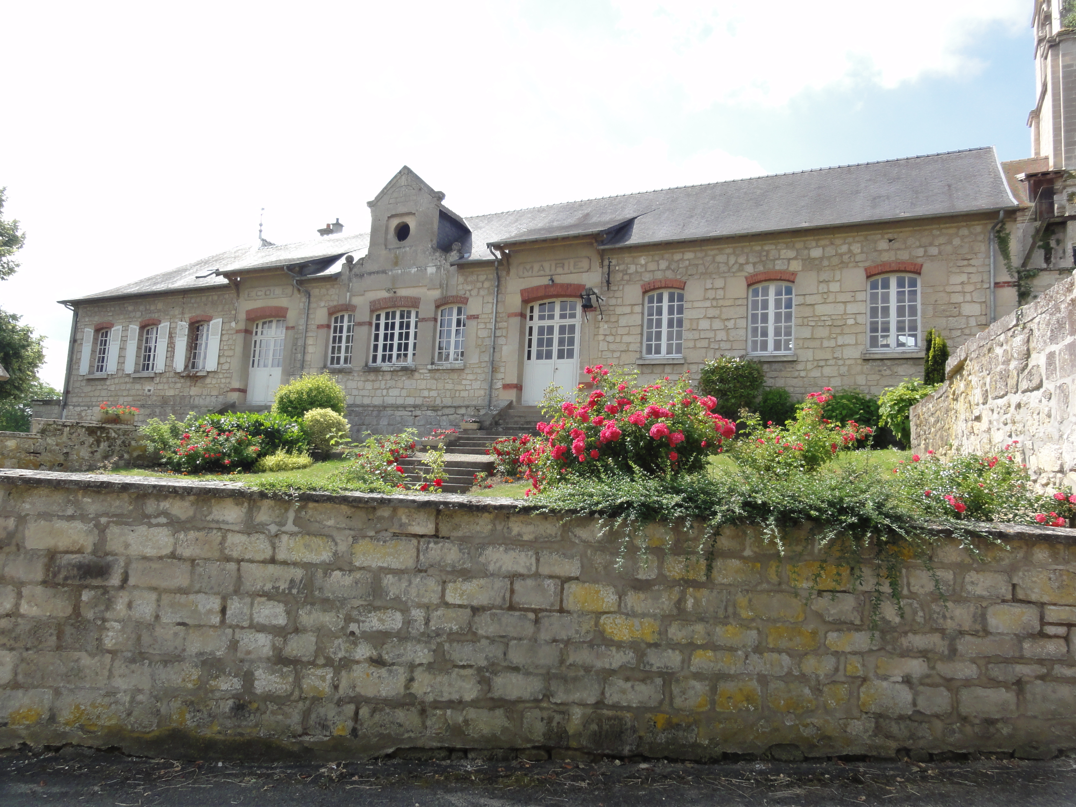 Saconin-et-Breuil (Aisne) mairie-école